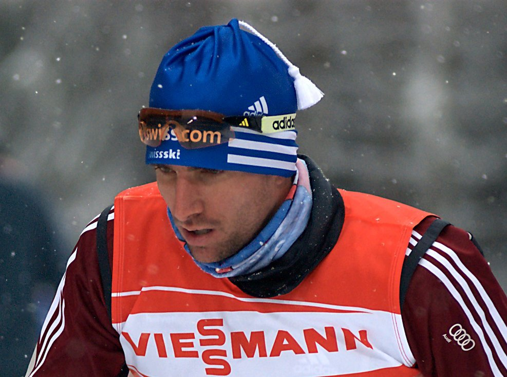 Curdin Perl at the Tour de Ski 2010 in Oberhof